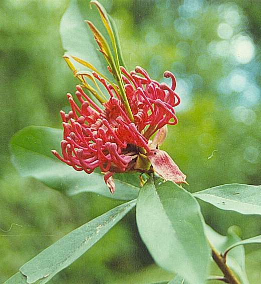 Telopea oreades in flower, Gippsland.